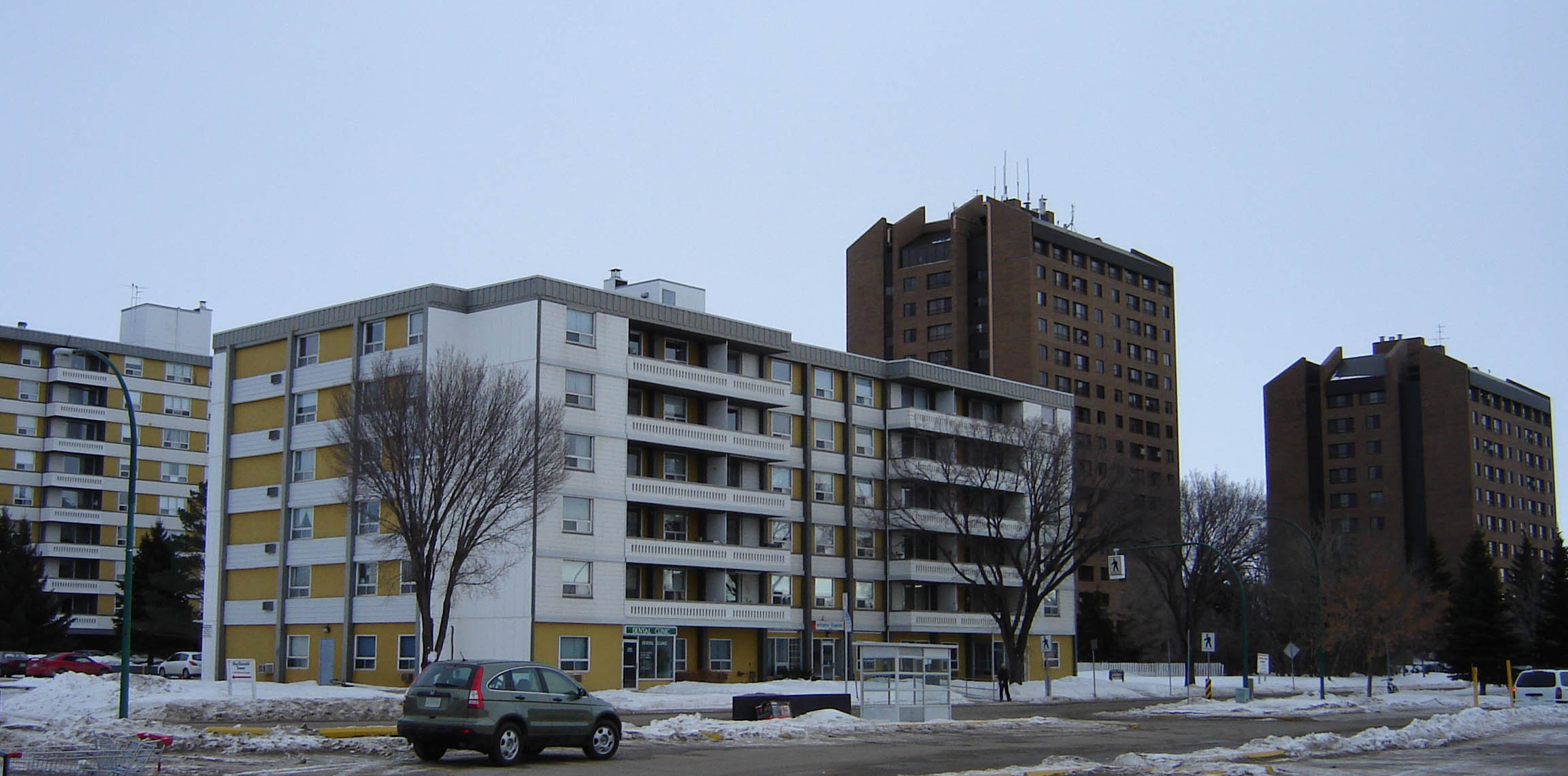 McEown Towers, MacDonald Towers, Nutana Suburban Centre, Nutana SDA, Saskatoon, Saskatchewan